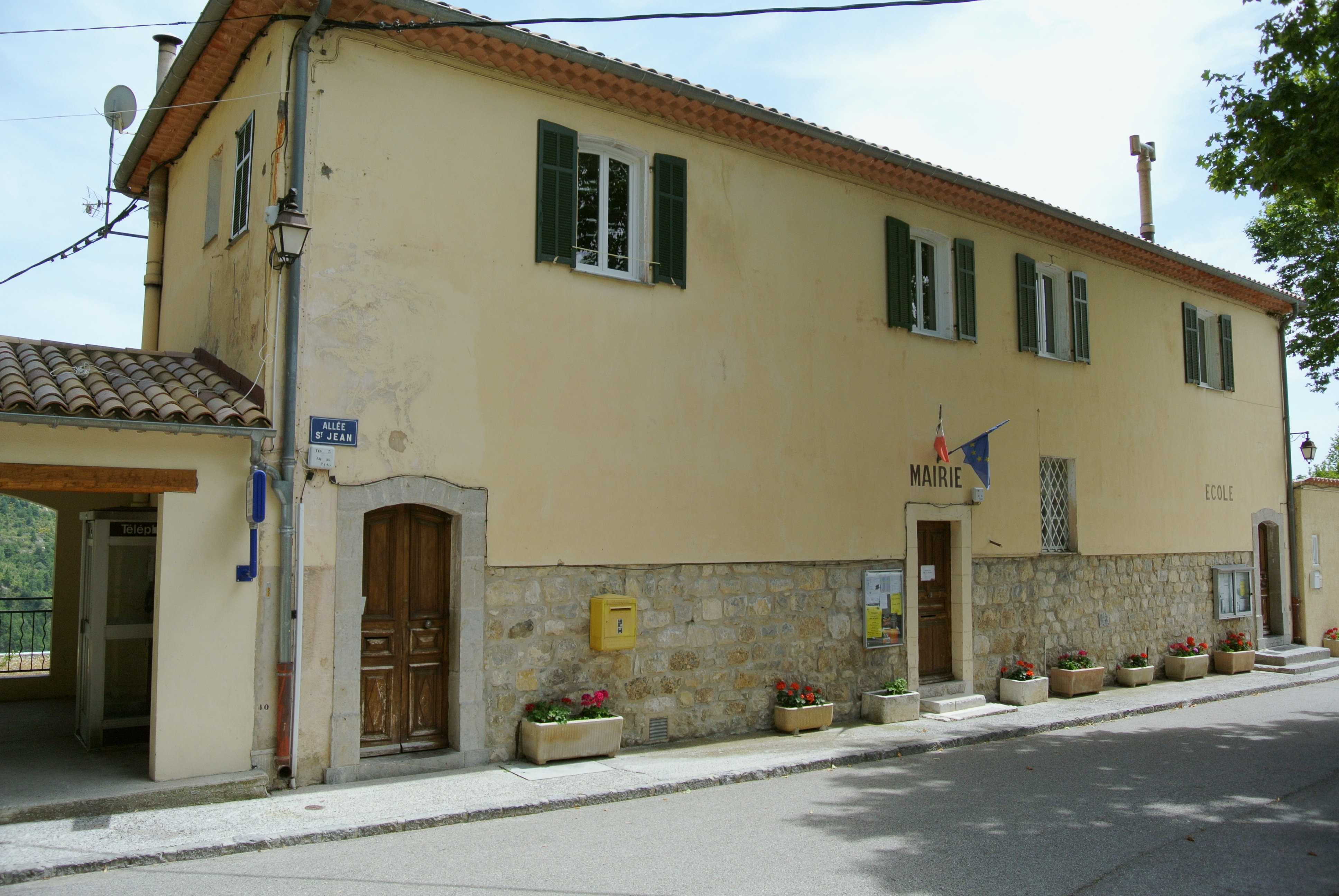 Town hall and school of Toudon.